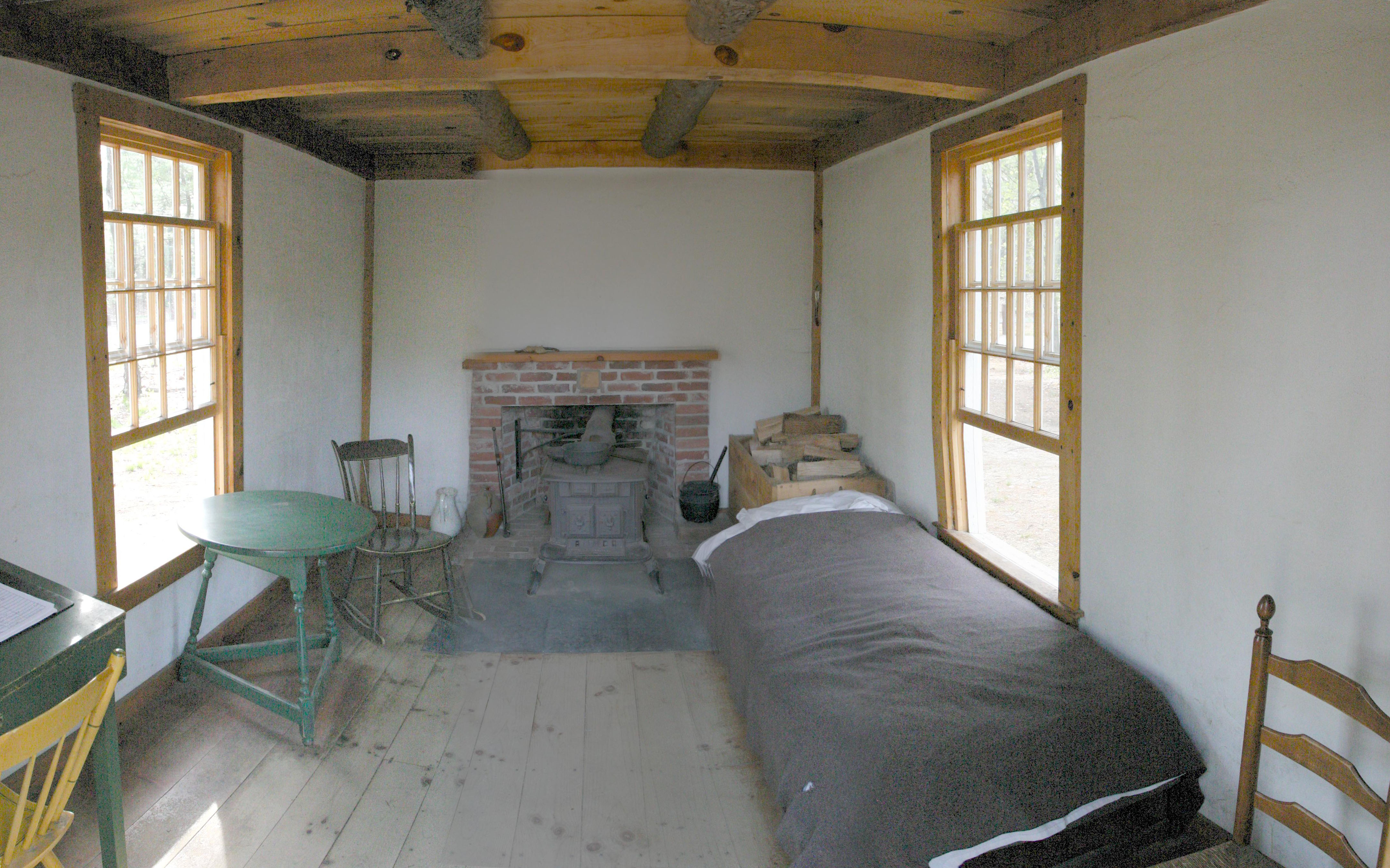 Inside of the Henry David Thoreau's cabin in Walden Pond, Massachusetts.